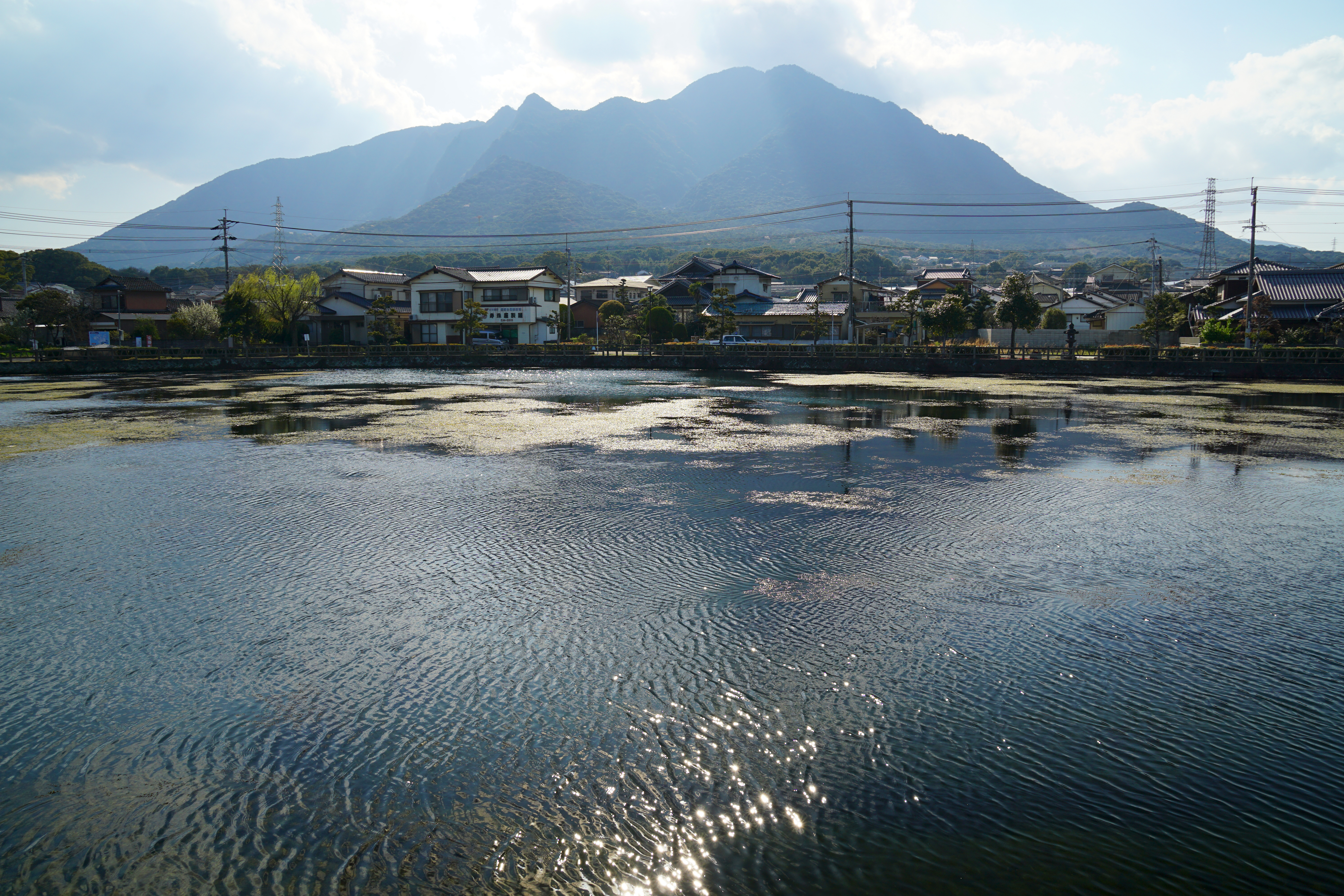 Lake Shirachi and Mount Mayuyama in Shimabara, Nagasaki prefecture, Japan. They are part of "Unzen Volcanic Area Geopark" which joins in Global Geoparks Network.